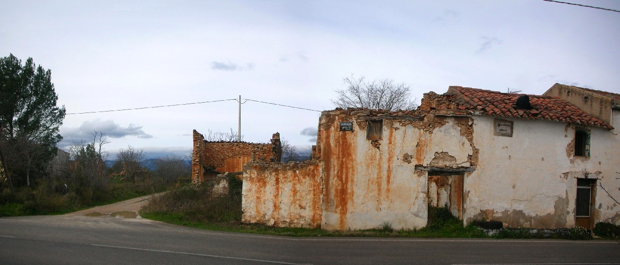 Ruined houses at Anolls, a small settlement belonging to Ulldecona municipality